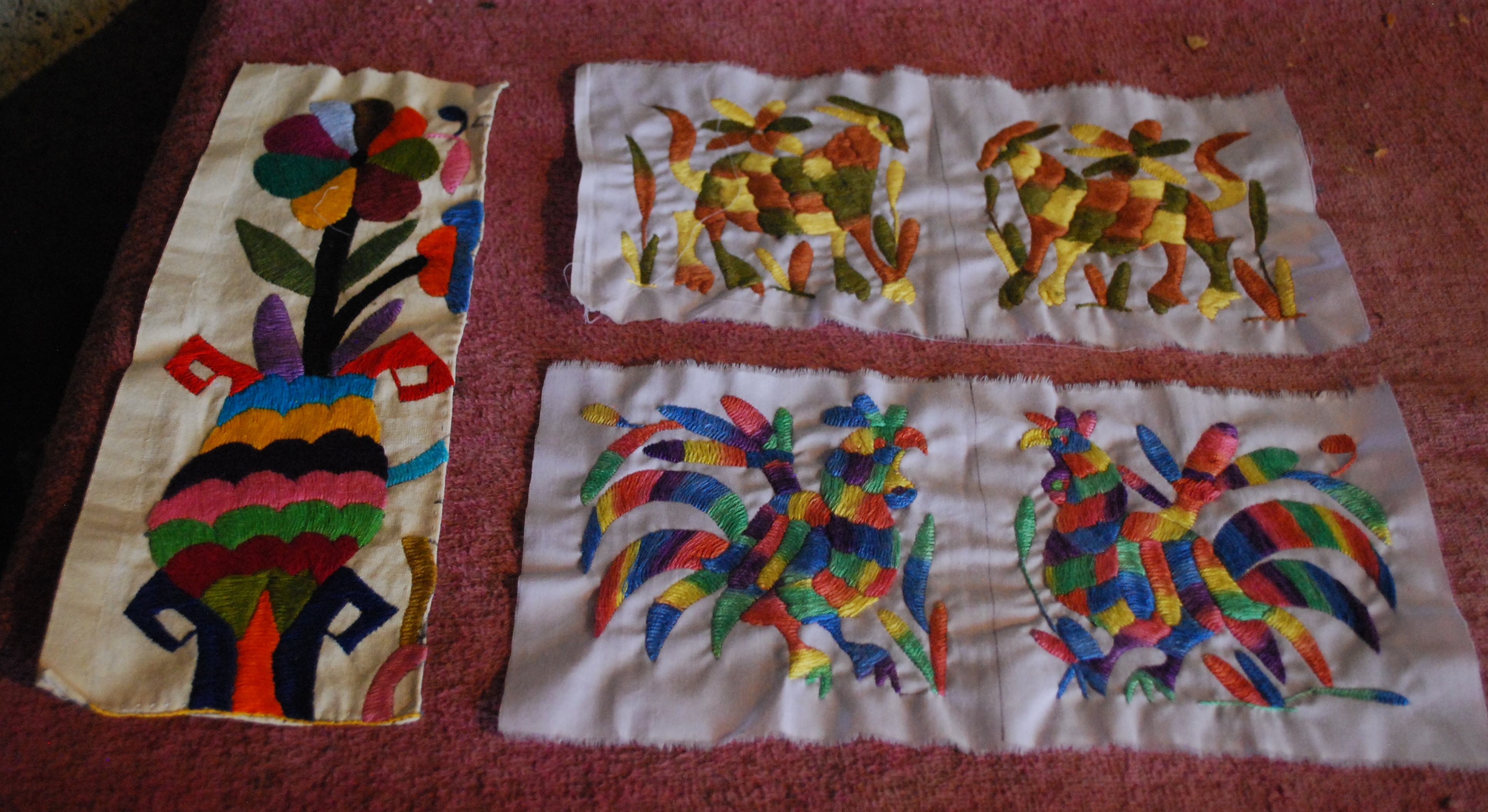 Tenango style panels in fine thread embroidered by artisan Elvira Clemente Gomez at her home in Santa Monica, Tenango de Doria, Hidalgo, Mexico